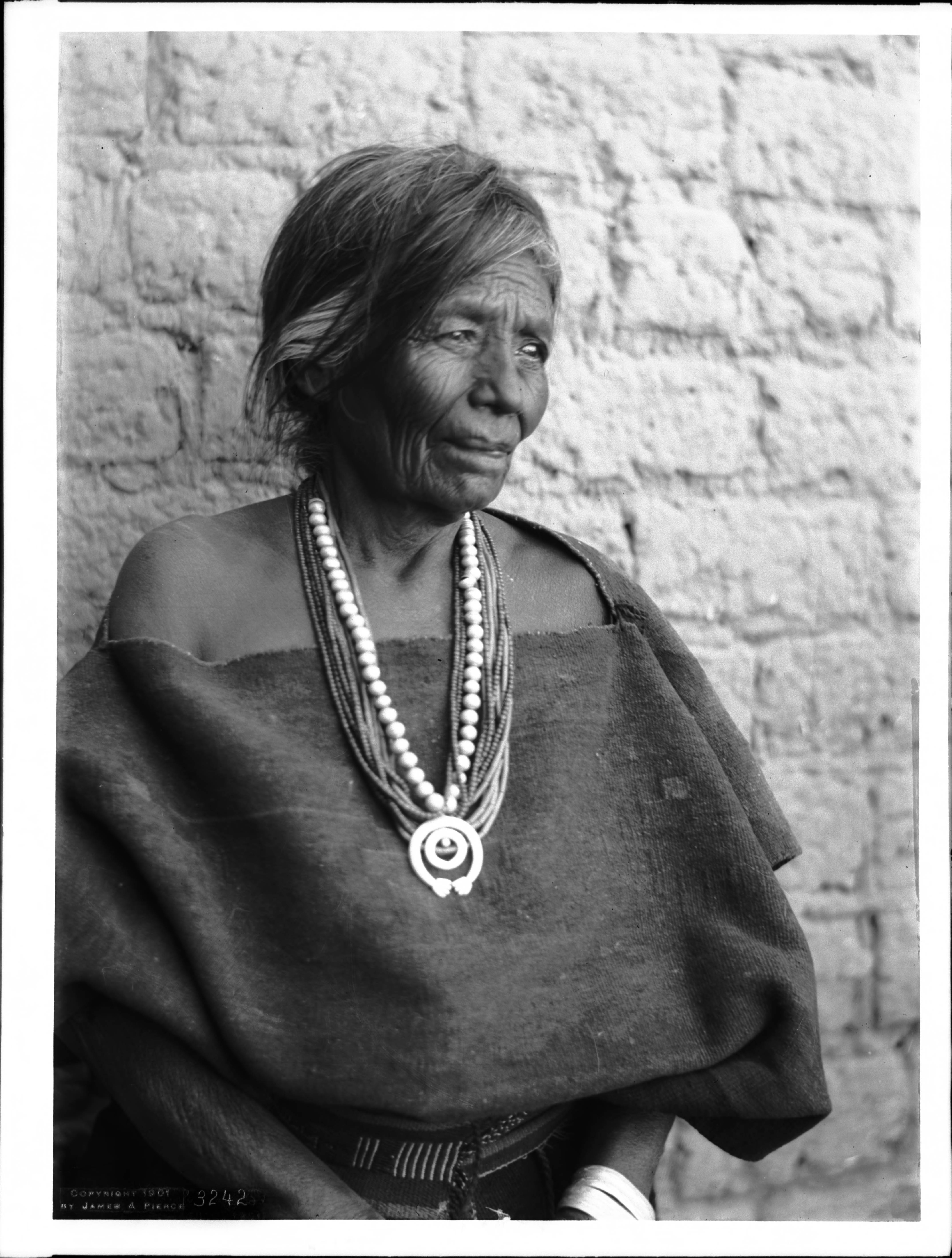 Wife of the great Navajo Chief Manuelito, the last chief of the Navajo, ca.1901 Photograph of a portrait of the wife of the great Navajo Chief Manuelito, the last chief of the Navajo, ca.1901. From the waist up. She is outside in front of an adobe brick wall. She is wearing a thick woven dress, long beaded necklaces around her neck, and a bracelet on her left arm. She is looking to her left. Photographer: Pierce, C.C. (Charles C.), 1861-1946; James, George Wharton Filename: CHS-3242 Coverage date: circa 1901 Part of collection: California Historical Society Collection, 1860-1960 Type: images Part of subcollection: Title Insurance and Trust, and C.C. Pierce Photography Collection, 1860-1960 Repository name: USC Libraries Special Collections Format: glass plate negatives Microfiche number: 1-174- Archival file: chs_Volume93/CHS-3242.tiff Repository address: Doheny Memorial Library, Los Angeles, CA 90089-0189 Geographic subject (country): USA Format (aacr2): 2 photographs : glass photonegative, photoprint, b&w ; 22 x 17 cm. Rights: Digitally reproduced by the USC Digital Library; From the California Historical Society Collection at the University of Southern California Call number: CHS-3242 Accession number: 3242 Repository Contributing entity: California Historical Society Date created: circa 1901 Publisher (of the digital version): University of Southern California. Libraries Format (aat): photographic prints; photographs Legacy record ID: chs-m15898; USC-1-1-1-13936 Access conditions: Send requests to address or e-mail given. Phone (213) 821-2366; fax (213) 740-2343. Subject (file heading): Indians -- Navajo Subject (lcsh): Indians of North America; Navajo Indians; Clothing and dress; Women Subject: Navajo Indians